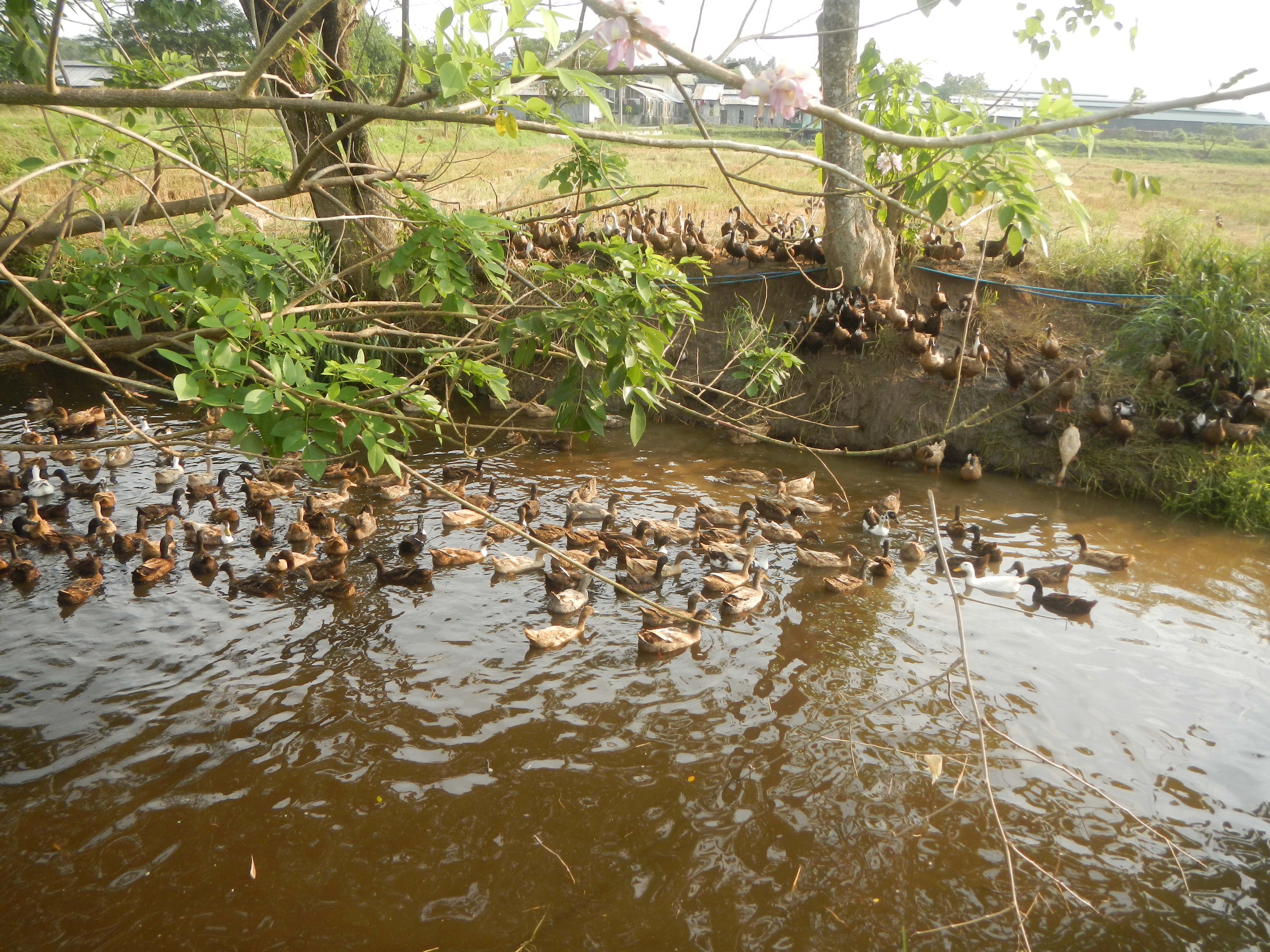 Barangay Nabaong Garlang 15°6'23"N 120°57'42"E Mataas na Parang 15°5'45"N 120°57'39"E beside Santa Catalina Bata 15°5'59"N 120°58'15"E Santa Catalina Matanda 15°5'52"N 120°58'50"E Sumandig 15°4'35"N 120°59'0"E Umpucan 15°4'11"N 121°0'48"E San Ildefonso, Bulacan accessed from the Maharlika Highway (Cagayan Valley Road, San Rafael-San Ildefonso, Bulacan section) of the Pan-Philippine Highway (Note: Judge Florentino Floro, the owner, to repeat, Donor Florentino Floro of all these photos hereby donate gratuitously, freely and unconditionally all these photos to and for Wikimedia Commons, exclusively, for public use of the public domain, and again without any condition whatsoever).